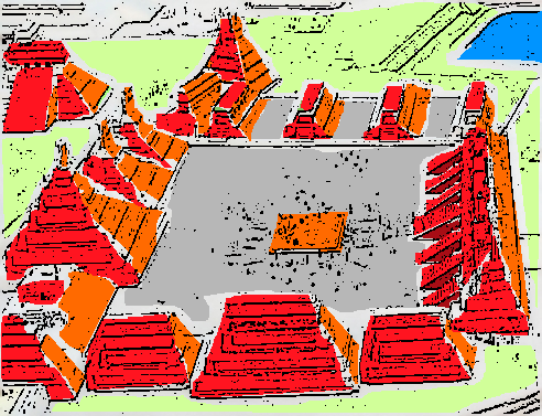 Reconstruction of the Plaza of the Seven Temples at Tikal as it would have looked in the 8th century AD.